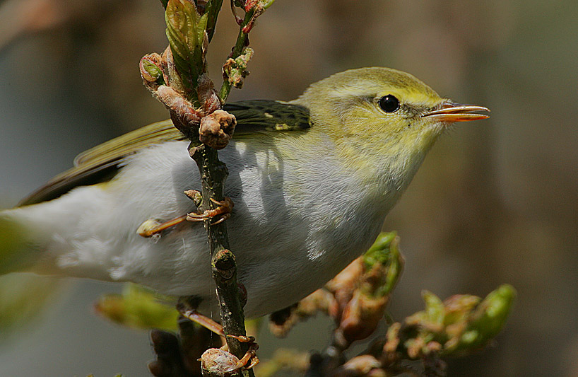 Taken near Strathyre